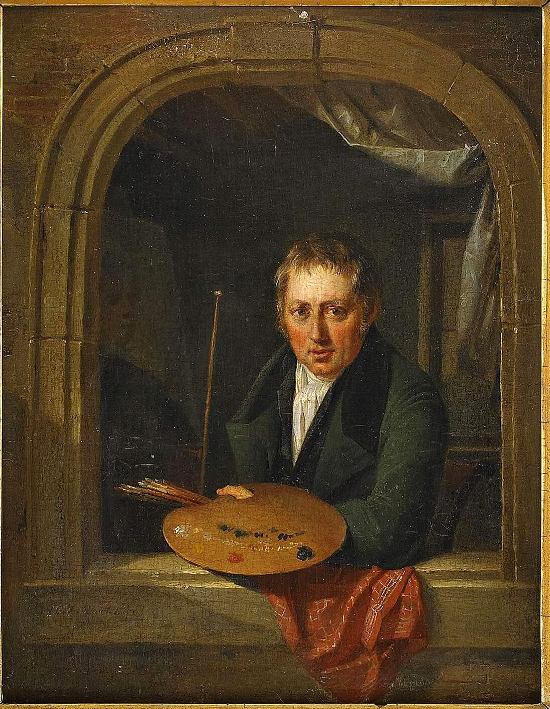 Jacques Joseph Eeckhout (1793-1861), self-portrait, ca. 1835. He is also known as: Jacobus Josephus Eeckhout Jacques Eeckhout was a painter, sculptor, lithographer and etcher. From 1839-1844 he was director of the Royal Academy of Art, The Hague, Netherlands